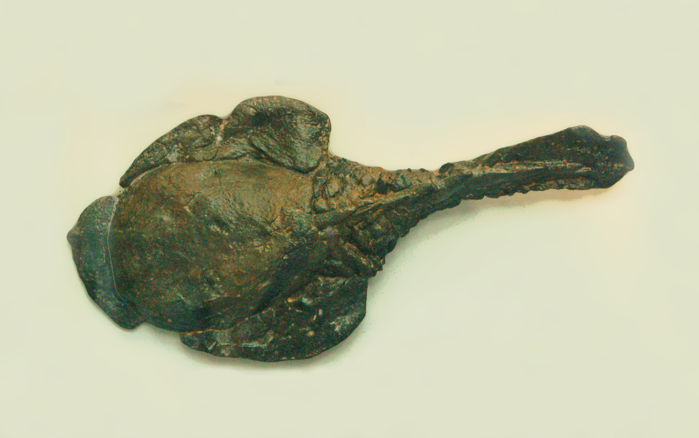 Drepanaspis gemuendensis - Cast